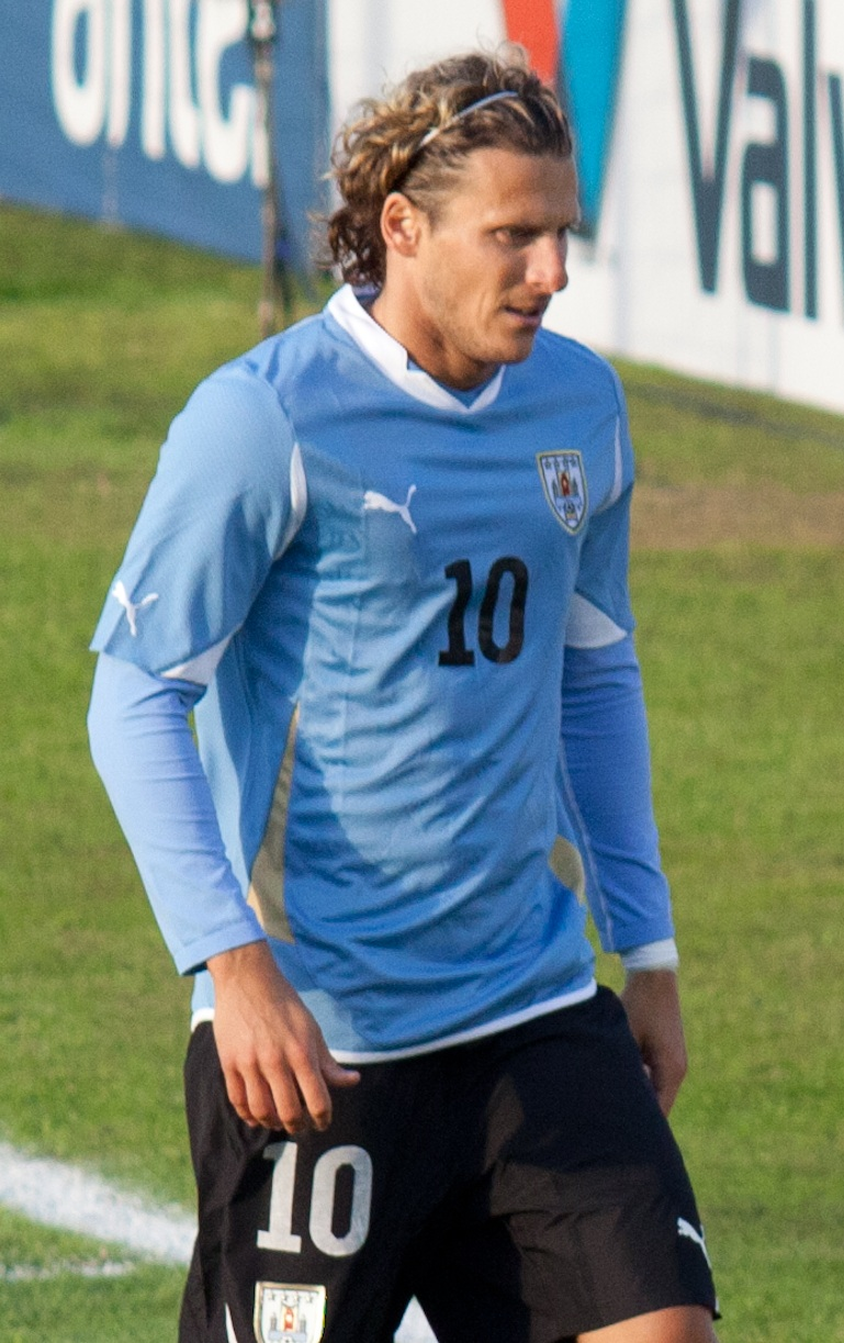 Diego Forlan playing for Uruguay in a friendly game against the Netherlands.